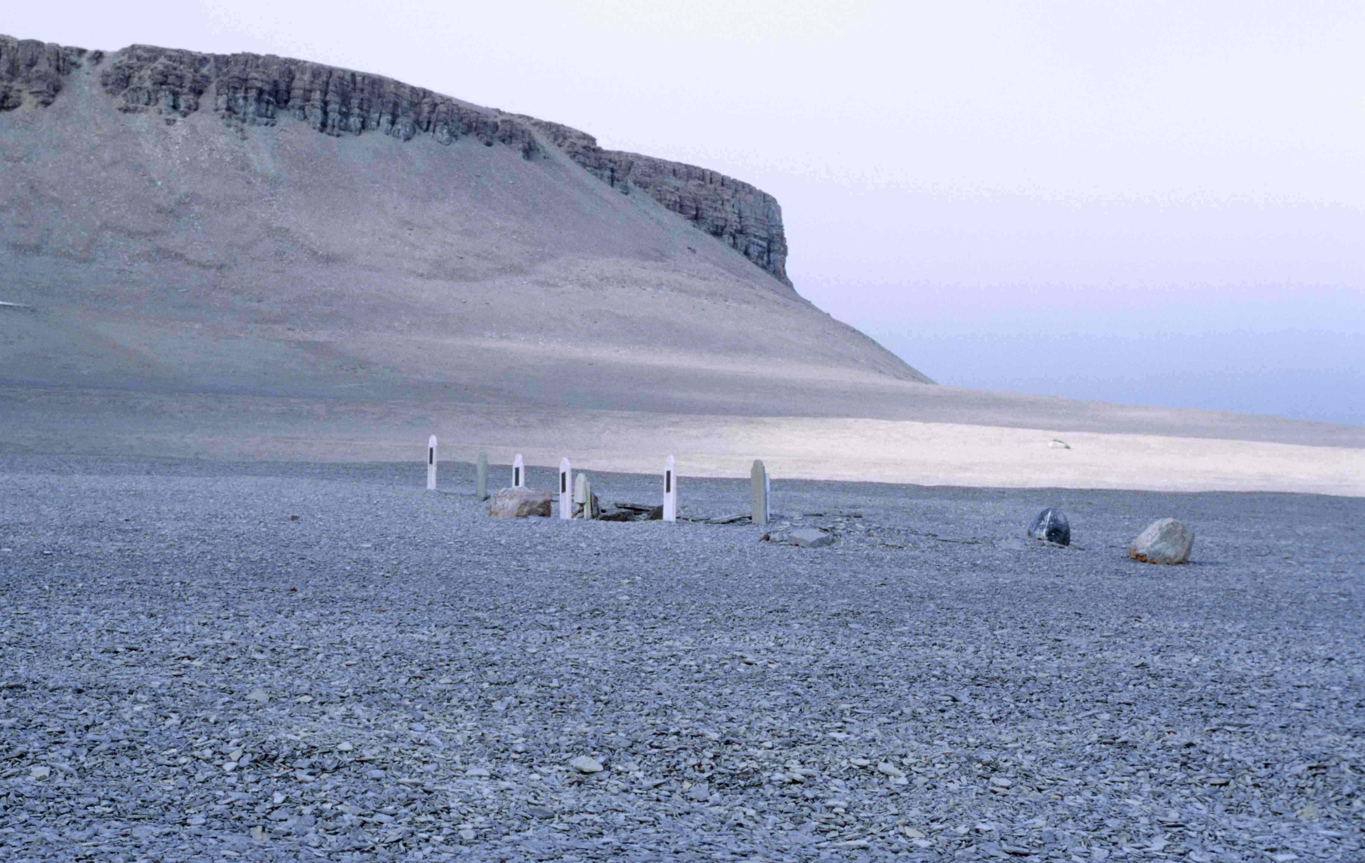 Beechey Island Graves of seamen from John Franklin Expedition (1845)